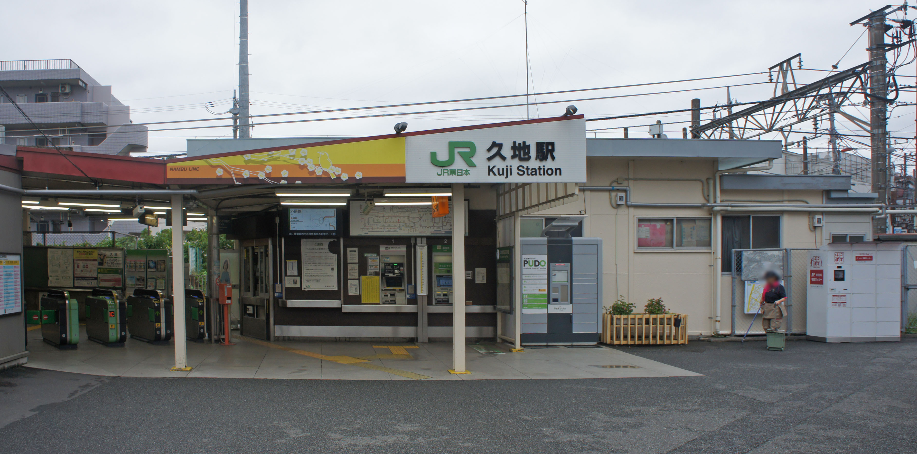 Station building of JR Nambu-Line Kuji Station